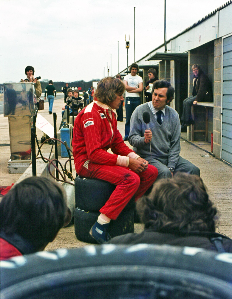 James Hunt gets interviewed by BBC Journalist while in Silverstone pit lane